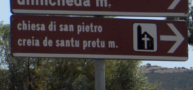 Bilingual local road sign in Sardinia (Siniscola/Thiniscole), Italy. Photo taken by User:Dch in year 2005.